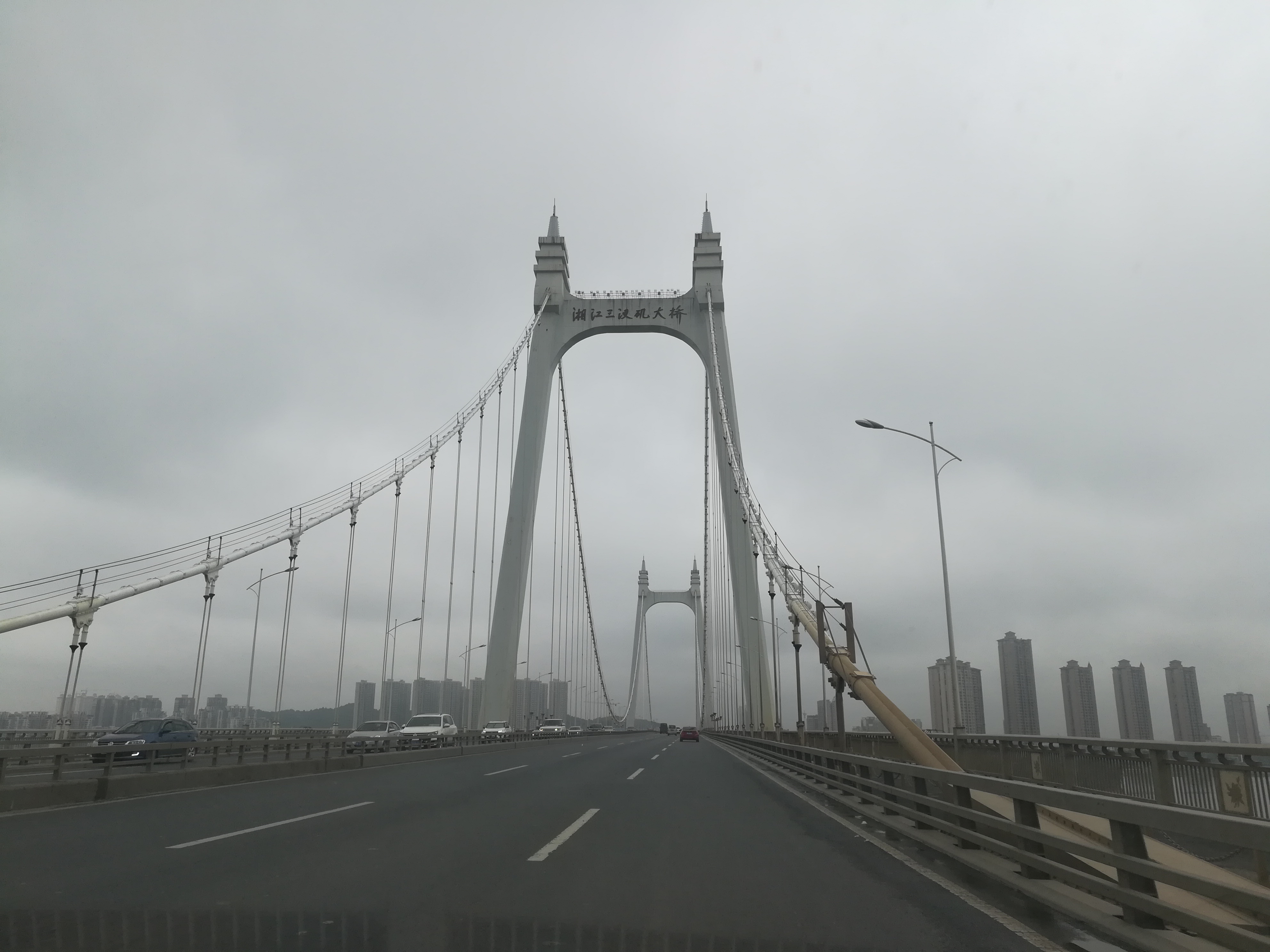 The Sanchaji Bridge is a suspension bridge in Changsha, Hunan, China. Completed on June 8, 2006, it has a main span of 732-metre (2,402 ft) and total length of 1,577-metre (5,174 ft). It is signed as part of the North Second Ring Road.